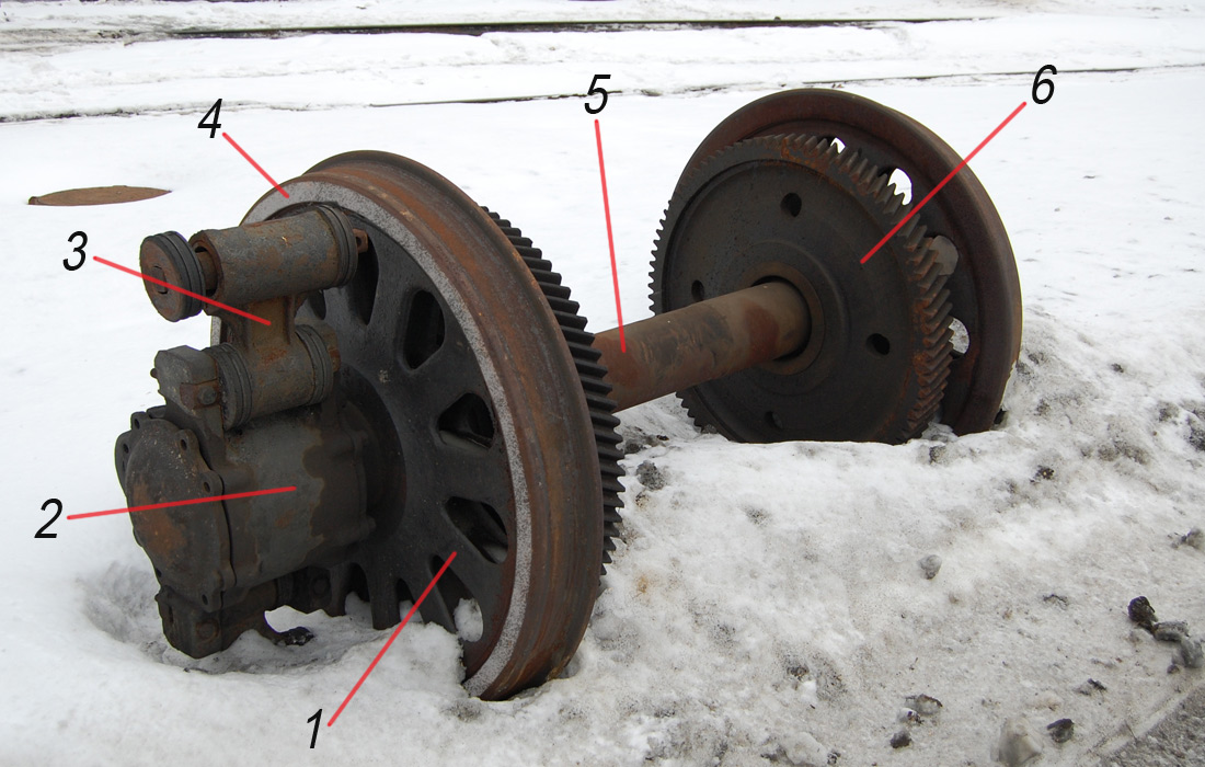 Wheelpair of russian electric locomotives VL10, VL11, VL80, VL85. 1 — wheel center, 2 — journal-box, 3 — shackle link, 4 — binding band, 5 — axle, 6 — tooth wheel